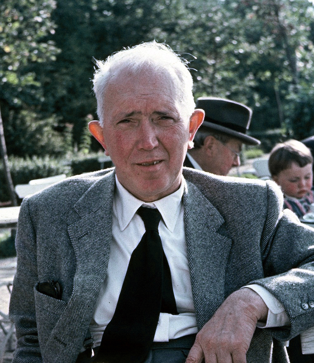 Wilhelm Maßmann (* 6. Juli 1895 in Preetz; † 17. Dezember 1974 in Kiel) Chess composer and collector of chess miniatures